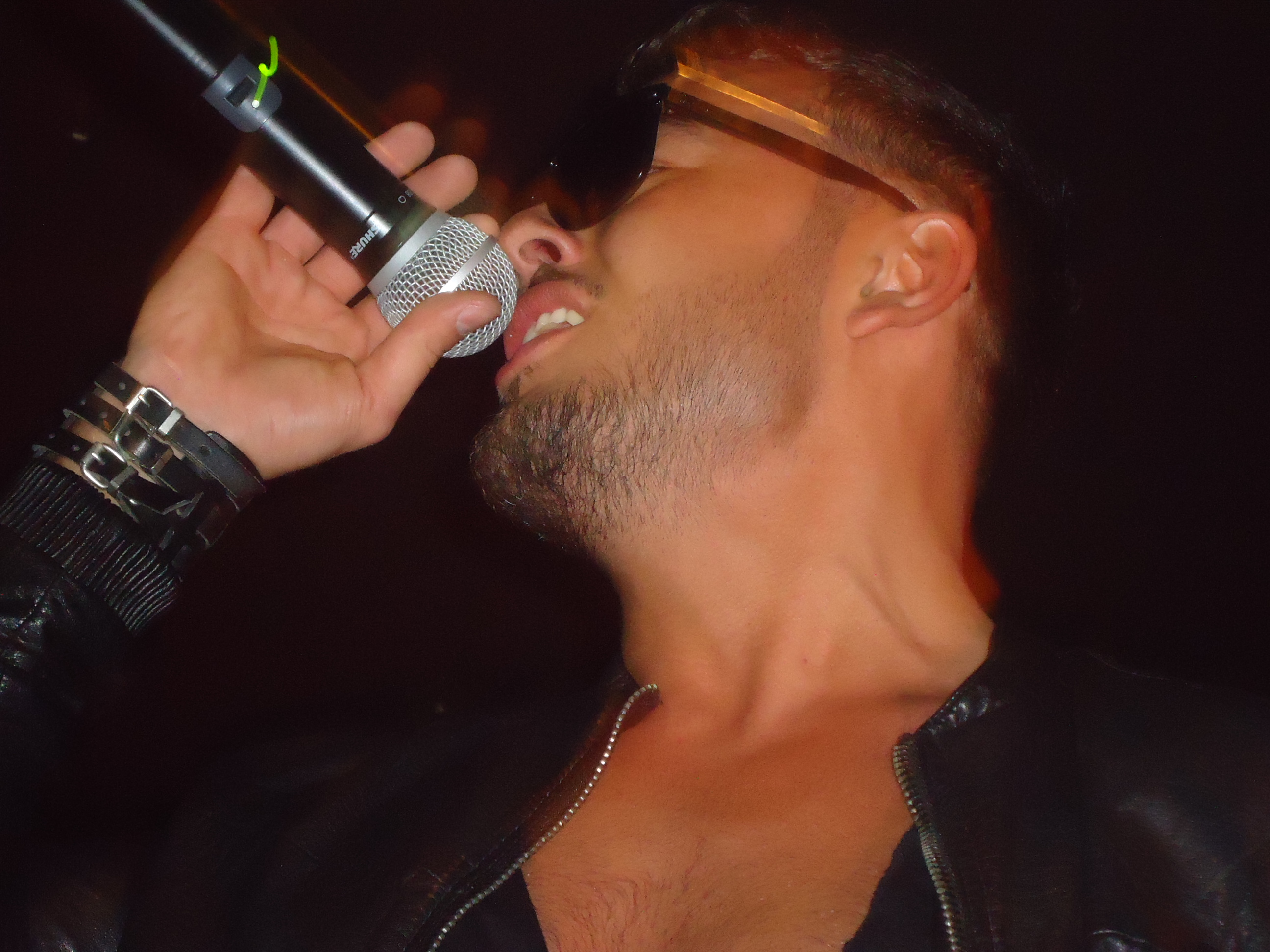 Ardian Bujupi